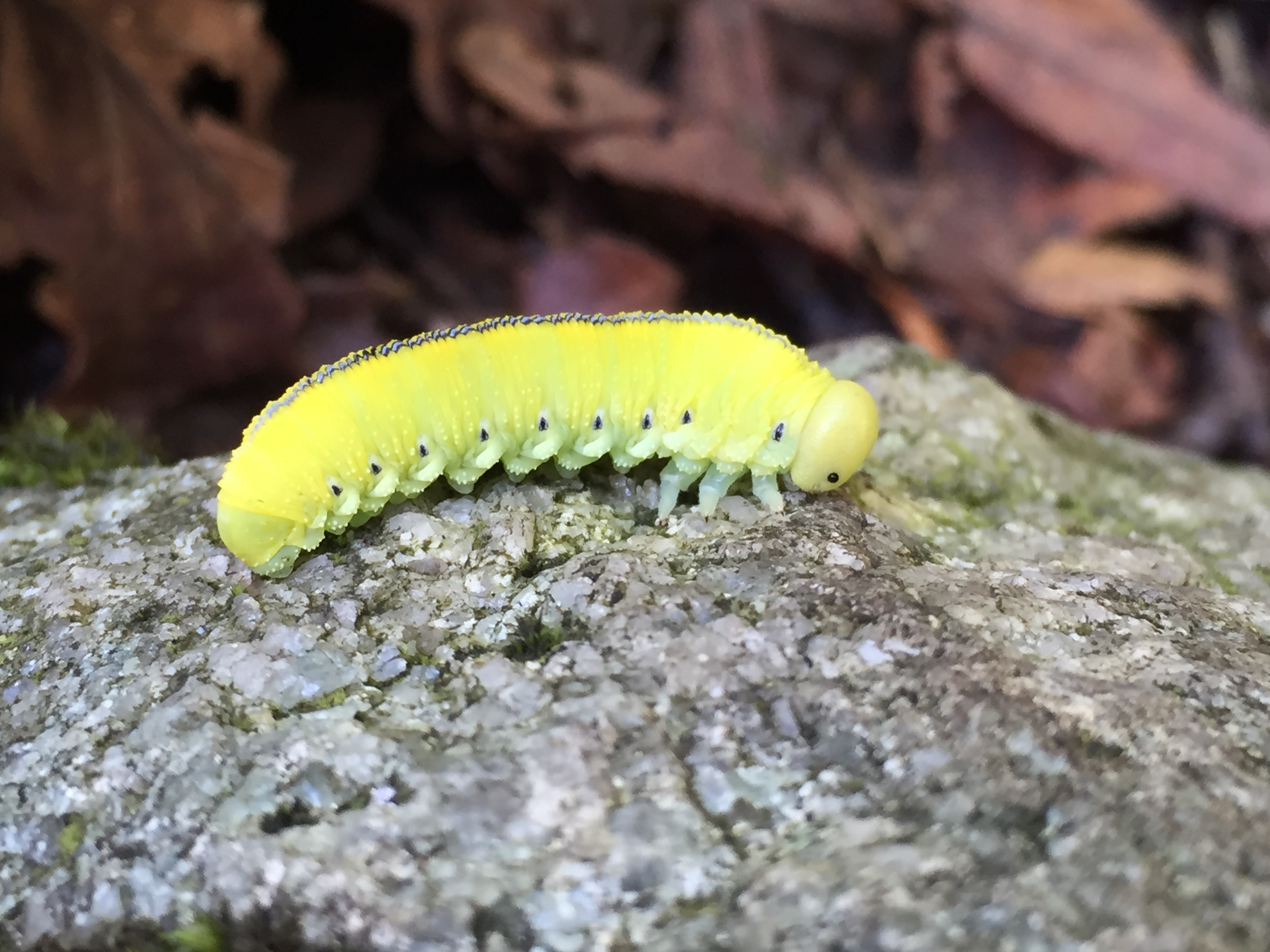 Cimbex luteus